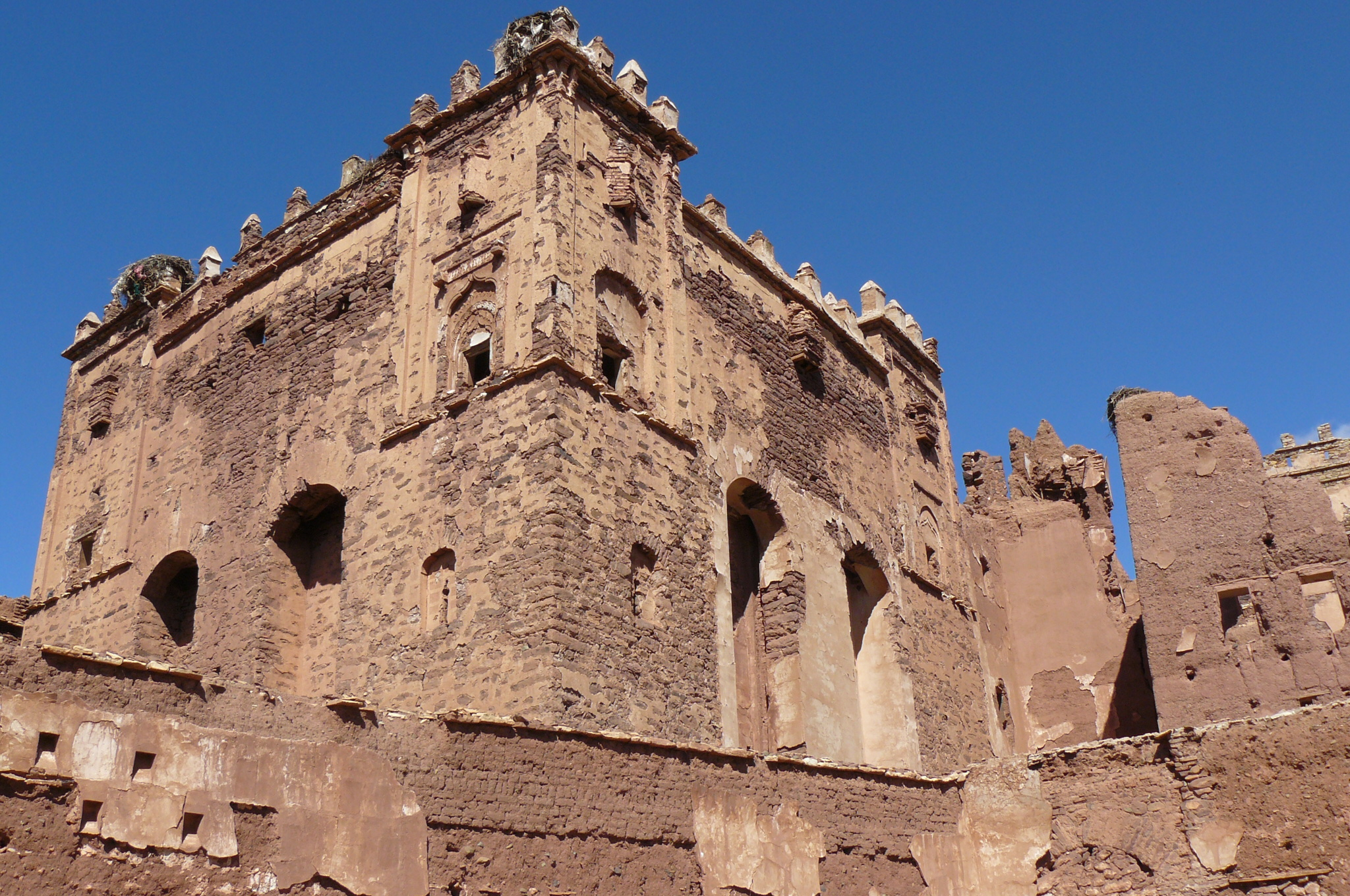 Kasbah of Telouet, Morocco. We stopped here on the journey between Marrakech and Ouarzazate.